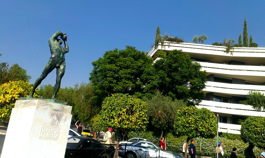 diskovolos